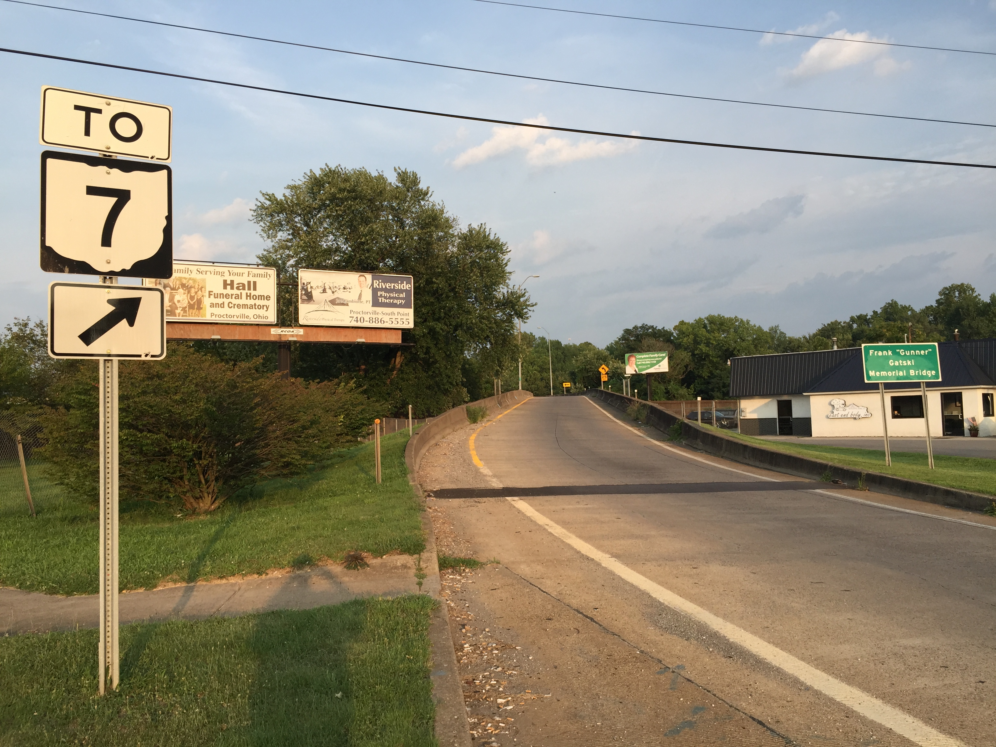 View north along West Virginia State Route 106 (East Huntington Bridge) at Fifth Avenue (U.S. Route 60) in Huntington, Cabell County, West Virginia